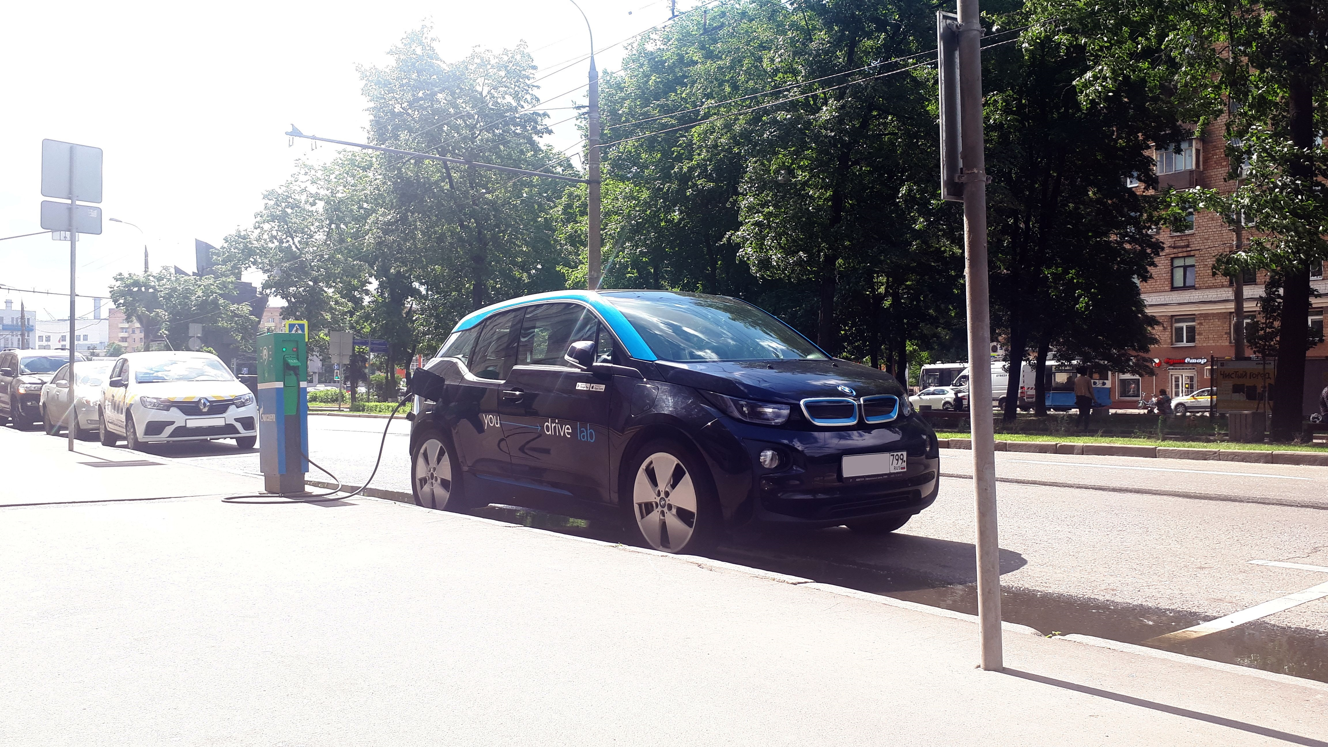 BMW i3 in Moscow.